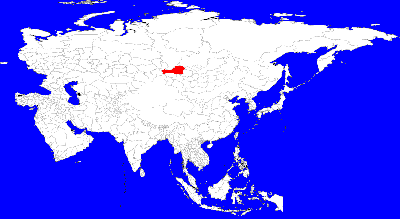 ASYANIN ORTASI: TUVA